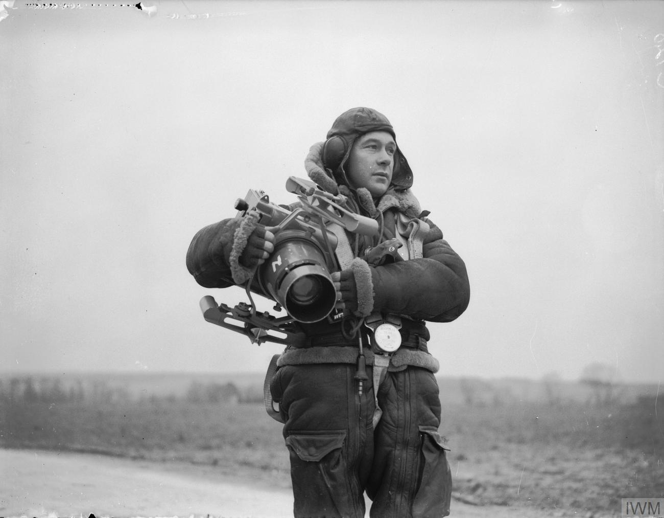 An RAF airman in full flying kit carrying an F24 aerial camera, France